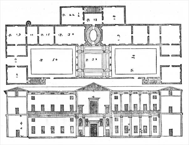 Palazzo Dalla Torre in Verona, by Andrea Palladio. Drawing from I quattro libri dell'architettura, 1570.